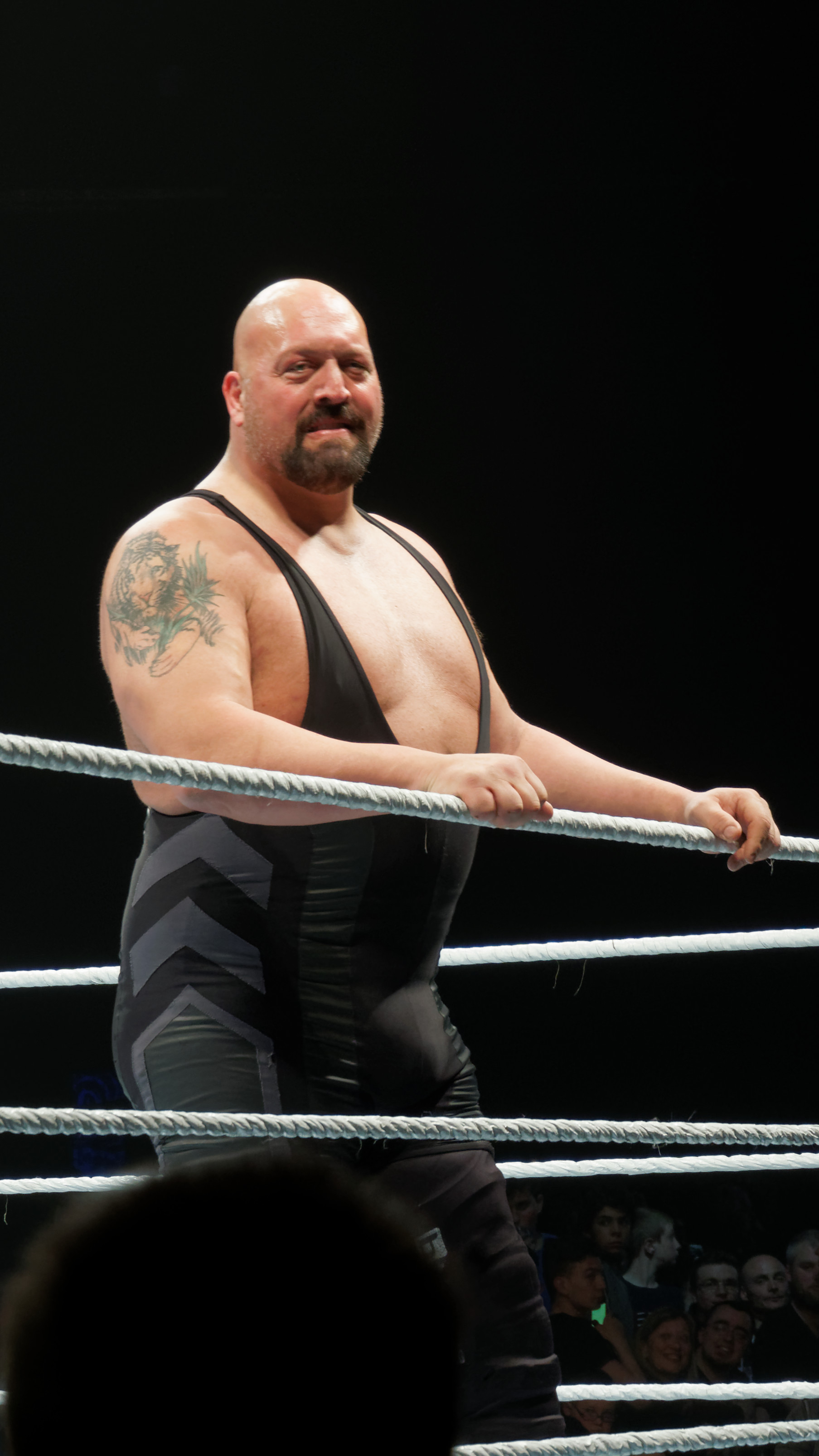 WWE Live WrestleMania Revenge Kane & The Big Show def. Braun Strowman & Erick Rowan